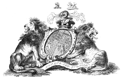 Coat of Arms of John Griffin Griffin, 4th Baron Howard de Walden (born Whitwell) (1719-1797). Arms quarterly of eight: 1: Sable, a griffin segreant argent beak and forlegs or (Griffin) (Source: Debrett, J., The Peerage of England, Scotland, and Ireland: The peerage of England, London, 1790, p.395[1] as visible in Audley End House[2]) 2: Royal arms of King Edward I, a label of three points argent for difference (Arms of Thomas of Brotherton, 1st Earl of Norfolk, quartered by Howard). These arms are given by Debrett, 1790 (above) as the 5th of 6 quarterings of the arms of John Griffin Griffin, 4th Baron Howard de Walden, 1st Baron Braybrooke (1719-1797), but are here promoted to the 2nd quarter of 8, perhaps to honour them as royal arms. 3: Gules, a cross patonce or (Latimer[3]) 4: Gules, crusily and a lion rampant argent (De La Warr[4]) 5: Gules, on a bend between six cross-crosslets fitchy argent an escutcheon or charged with a demi-lion rampant pierced through the mouth by an arrow within a double tressure flory counterflory of the first (Howard, with augmentation of honour) 6: Chequy or and azure (de Warenne, Earl of Surrey, a Howard heiress); 7: Gules, a lion rampant argent (Mowbray, a Howard heiress) 8: Audley (of Walden) [5] (a Howard heiress)